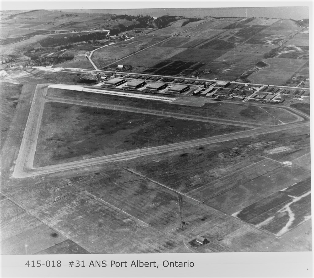 This is an aerial photograph of Royal Air Force No. 31 Air Navigation School at Port Albert, Ontario, Canada. The is to the southeast, with the shoreline of Lake Huron at the top of the frame. The hangar line and other buildings are laid out along Bluewater Highway, Ontario Highway 21. The north entrance road to Port Albert is clearly visible in the top left corner. The memorial cairn is located at the corner of this entrance road and the highway.